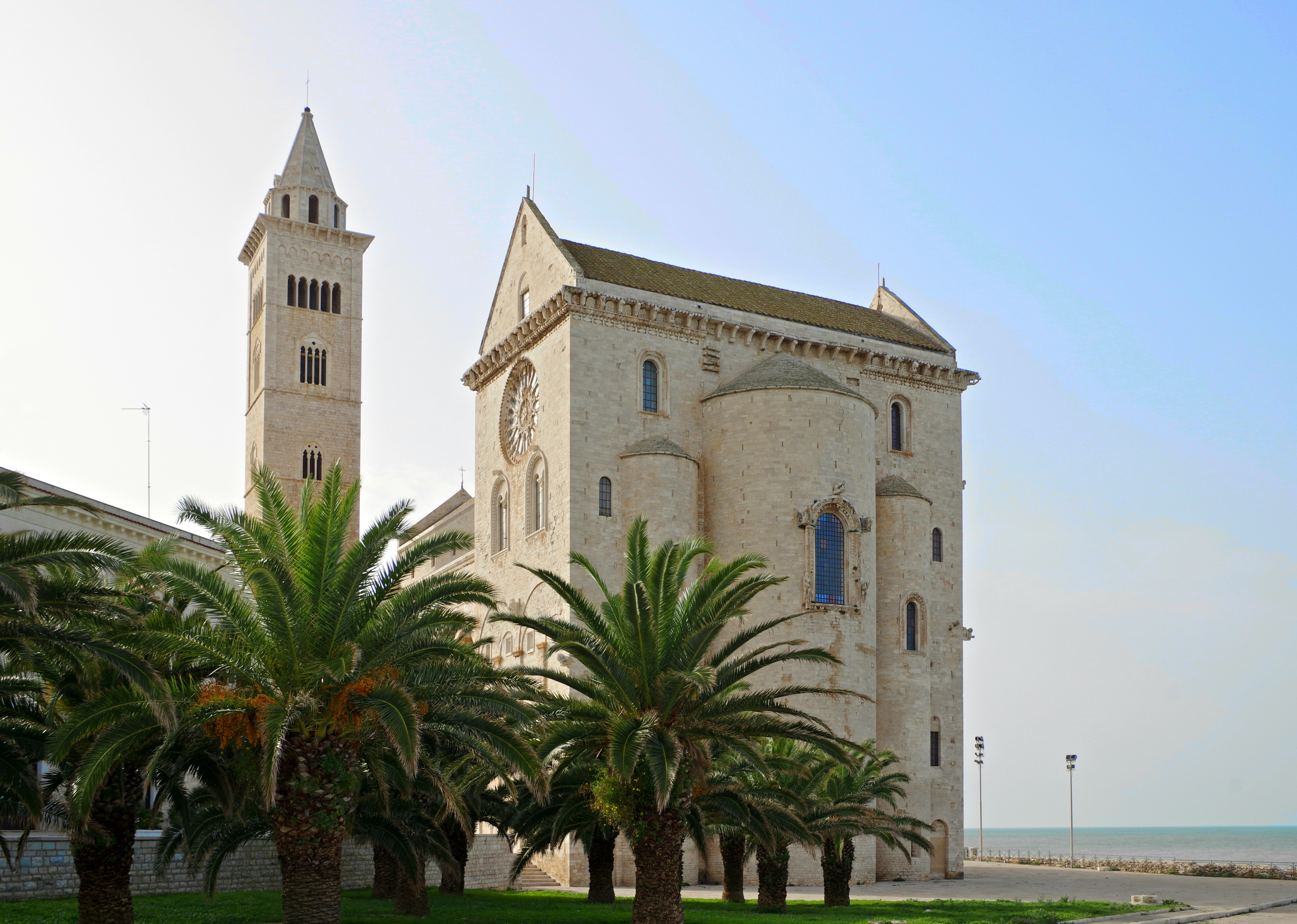 Italy, Trani, cathedral